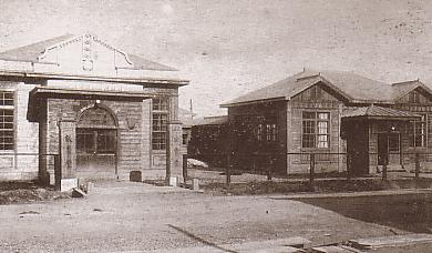 Motodomari Town Office